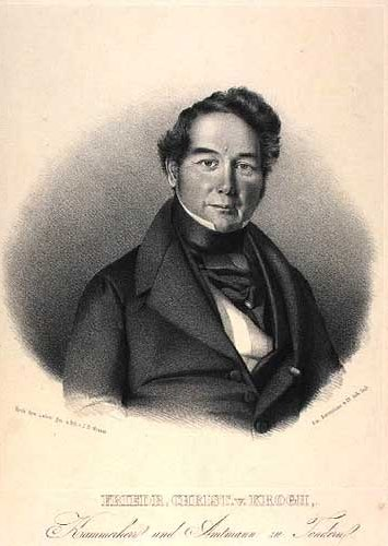 Frederik Christian von Krogh (1780-1867), Danish district officer